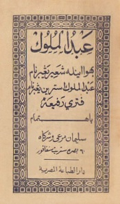 Title page of the Syair Abdul Muluk (1846/47)